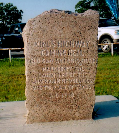 A typical marker placed along the route of the Old San Antonio Road (aka Kings Highway or Camino Real) in 1918. This one located about 4 miles west of Bastrop, Texas, United States on Texas State Highway 71.